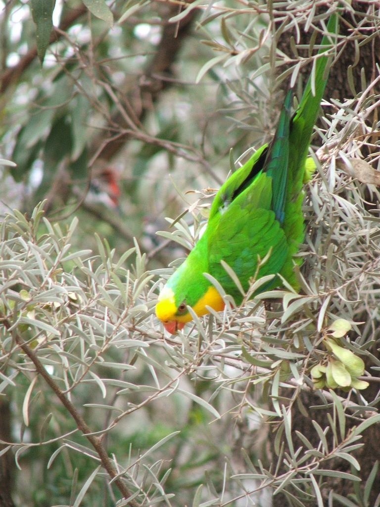 A adult male Superb Parrot (also known as Barraband's Parrot and Barraband's Parakeet) at Taronga Western Plains Zoo, near Dubbo, New South Wales, Australia.